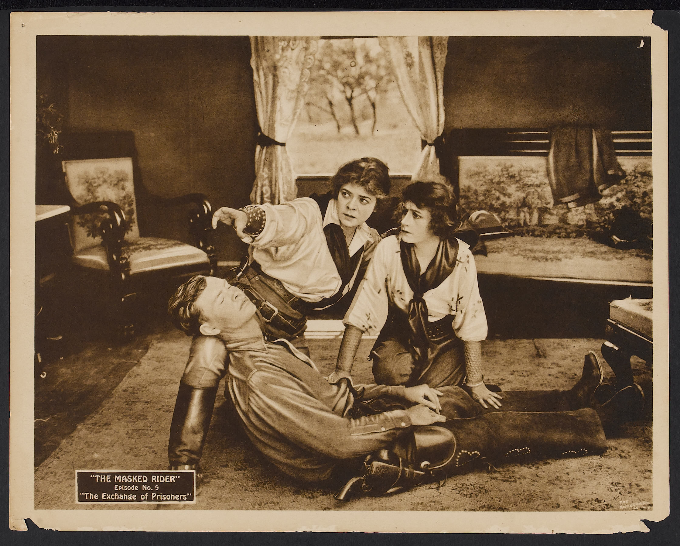 Lobby card for episode 9 of the American western film serial The Masked Rider (1919).